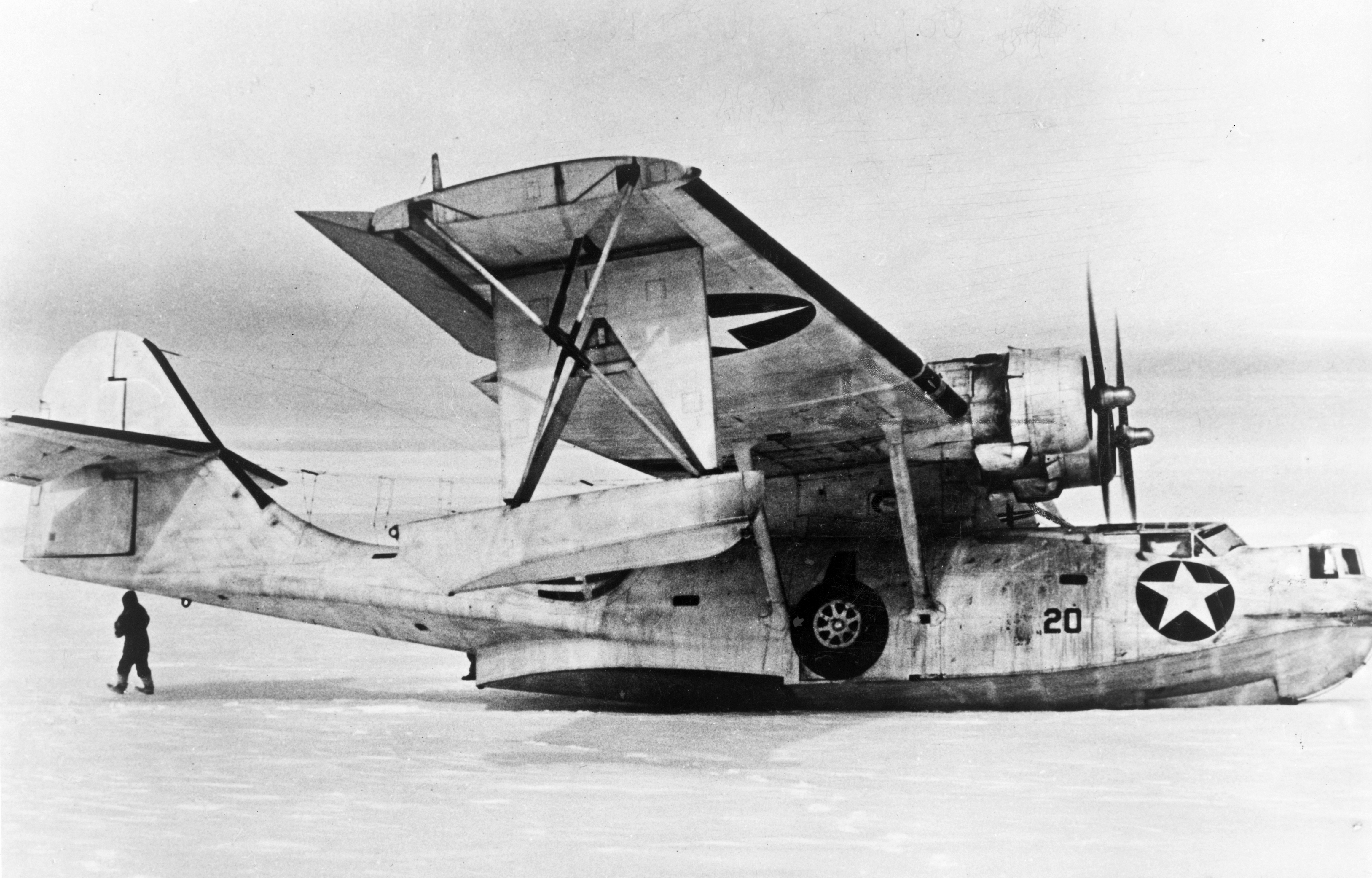 Consolidated PBY Catalina seaplane of Bernt Balchen after landing on ice cap, Greenland during rescue of O'Hara and crew. U.S. Army photo No. A-55800 A.C.